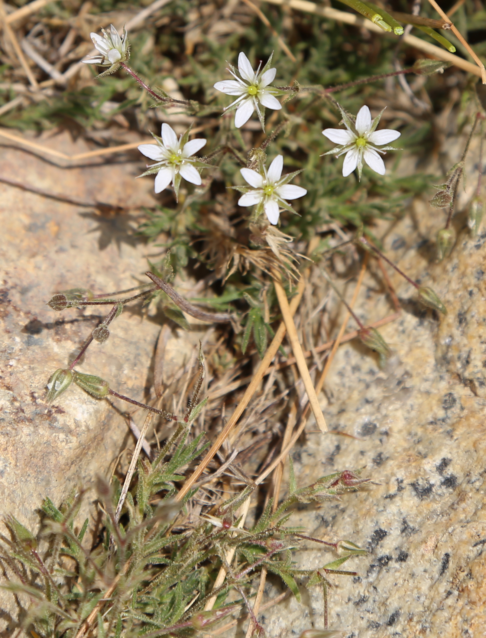 Minuartia nuttallii — Nuttall's sandwort. Leaves, buds, and flowers with 5 white petals, 5 protruding sepals, central green pistil, and 10 stamens. Ansel Adams Wilderness, Sierra Nevada.